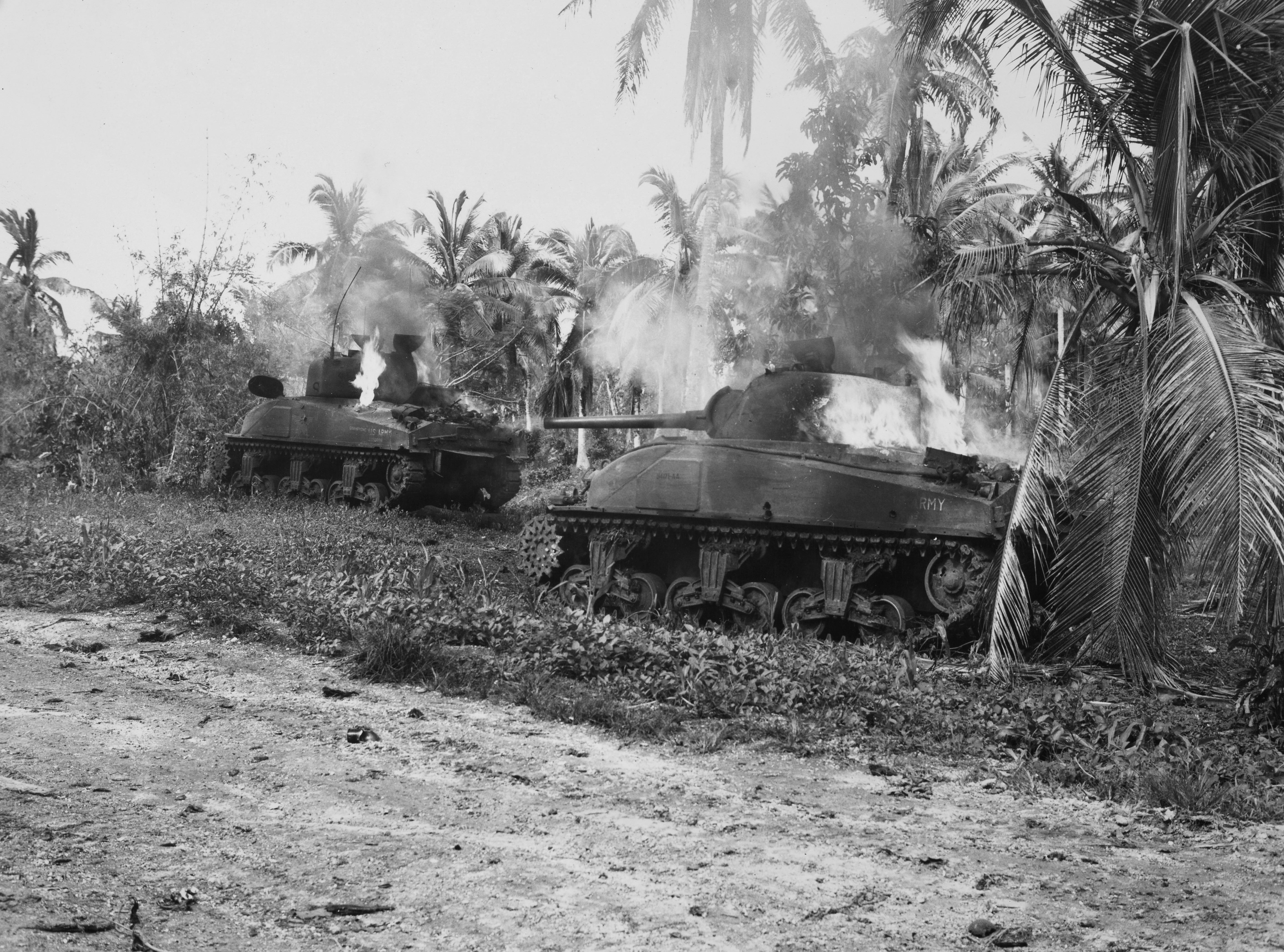 Enemy anti-tank guns accounted for these two tanks burning near Yigo, Guam, during the Marine and Army invasion of the island. The crews escaped safely from the burning machines, as the Marine infantry continued their advance